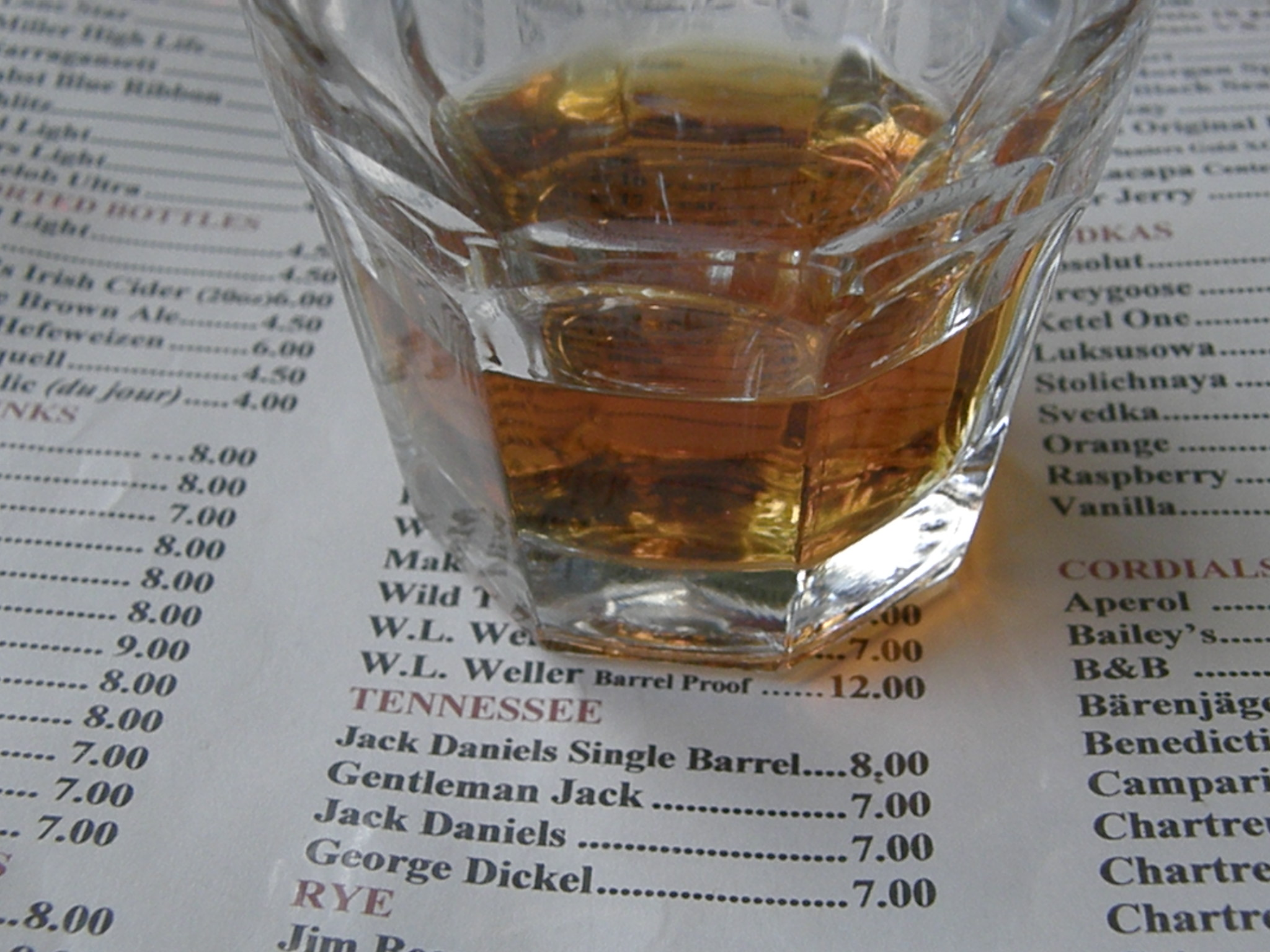 W.L. Weller Barrel Proof (bourbon) at the B-Side Lounge -- Cambridge, MA